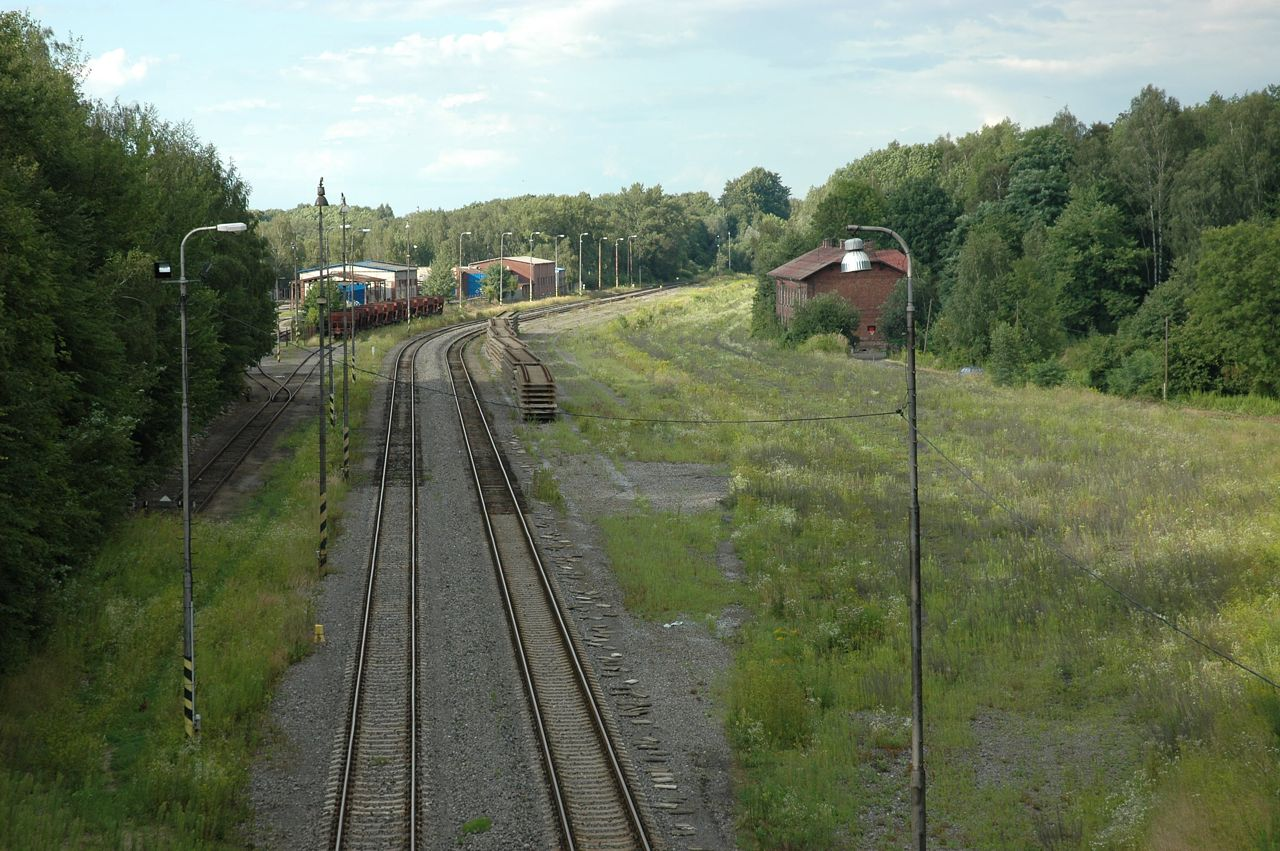 Railway station Josefova jáma, Mining railway, Ostrava, Czech Republic